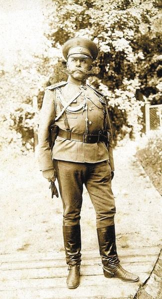 General Paul von Rennenkampf during WW1